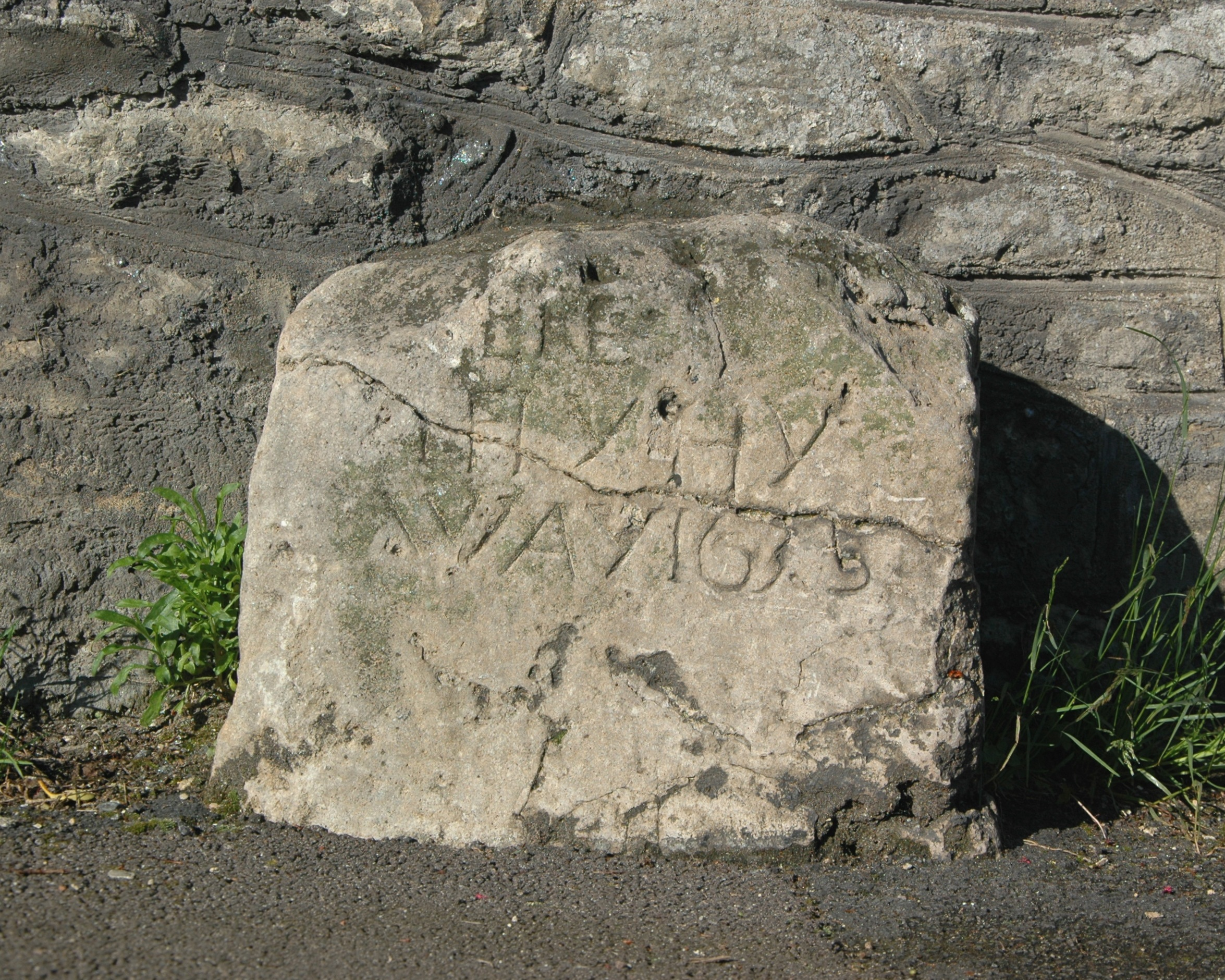 Highway stone at the junction of Henley Avenue, Rose Hill and Church Cowley Road, Oxford: "Here... Ifily Hy Way 1635".